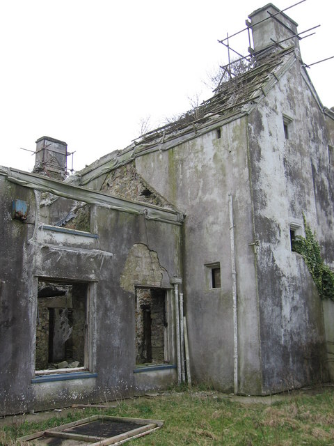 Great Frampton ten years after the fire Perhaps in another part of the country this would have been rebuilt or redeveloped by now.